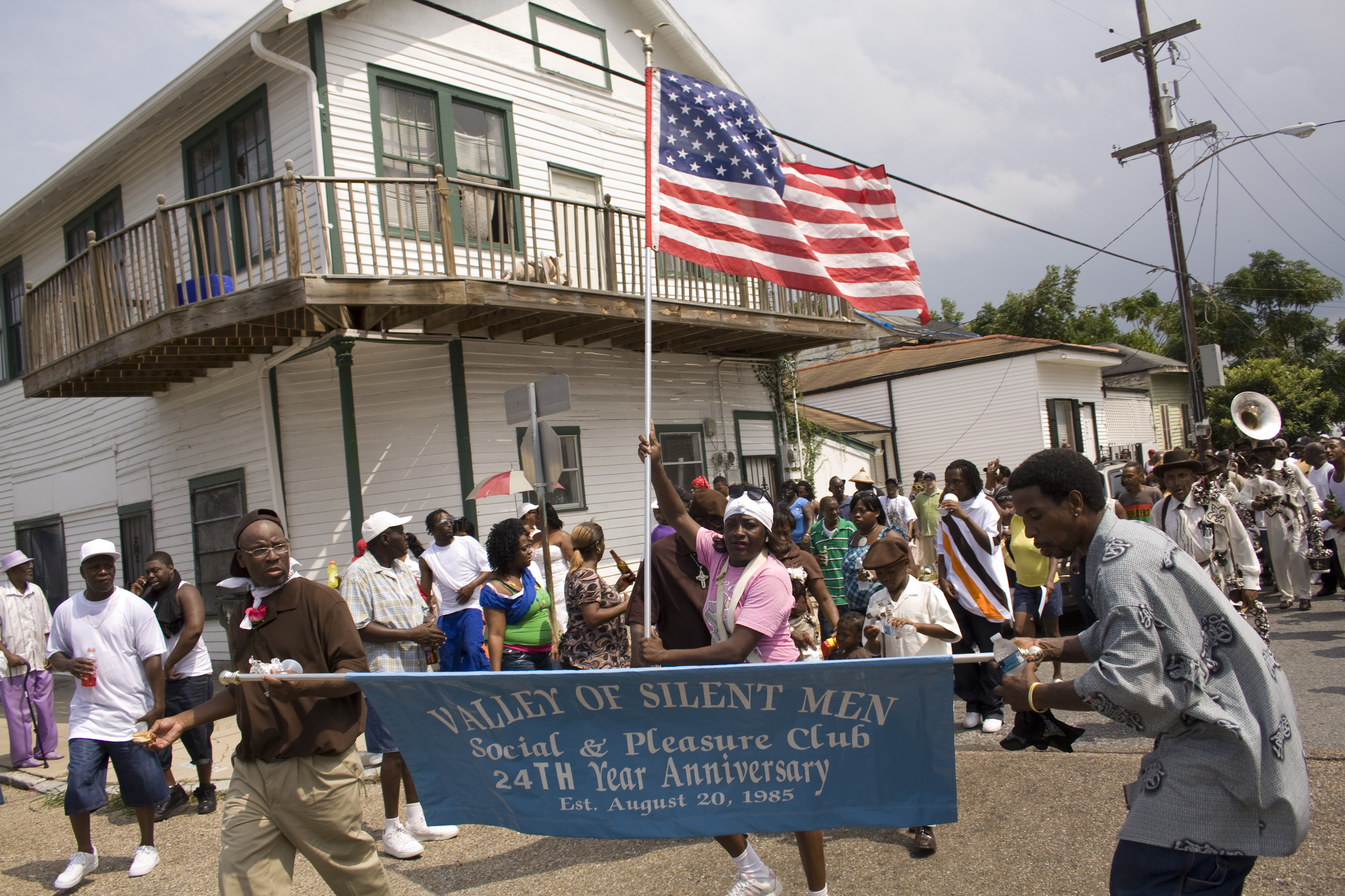 "Valley of Silent Men Social & Pleasure Club" second line parade in Central City New Orleans